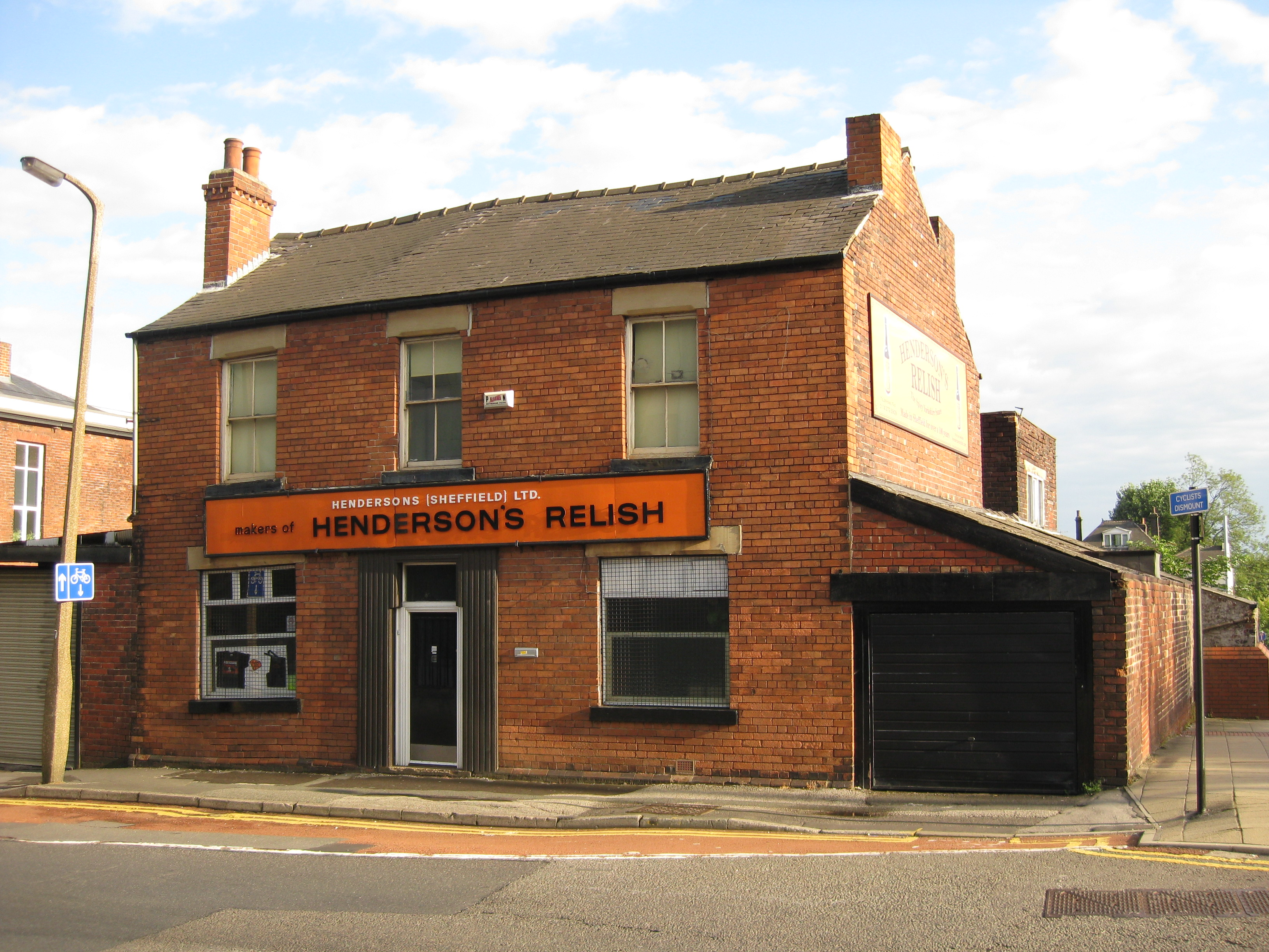 Henderson's Relish factory, Sheffield. Since closed.